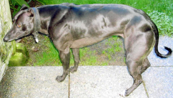 from PLOS genetics "A Mutation in the Myostatin Gene Increases Muscle Mass and Enhances Racing Performance in Heterozygote Dogs" 2007, by Dana S. Mosher1, Pascale Quignon1, Carlos D. Bustamante2, Nathan B. Sutter1, Cathryn S. Mellersh3, Heidi G. Parker1, Elaine A. Ostrander